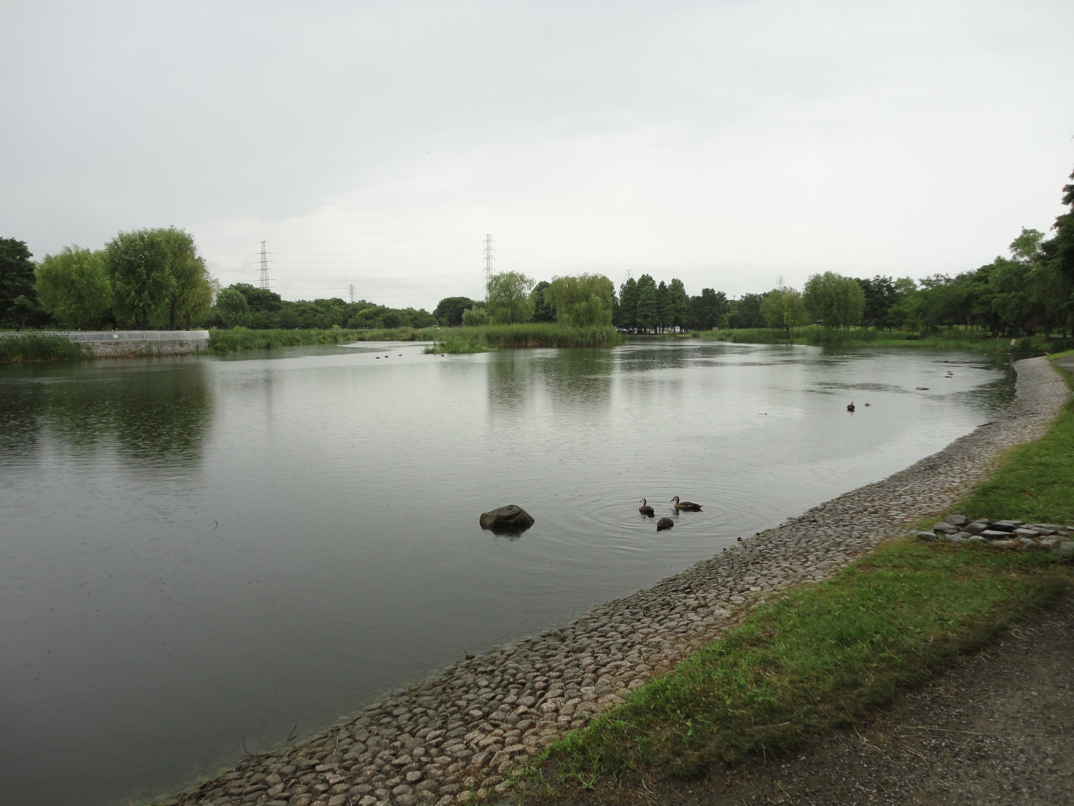 Toneri Park